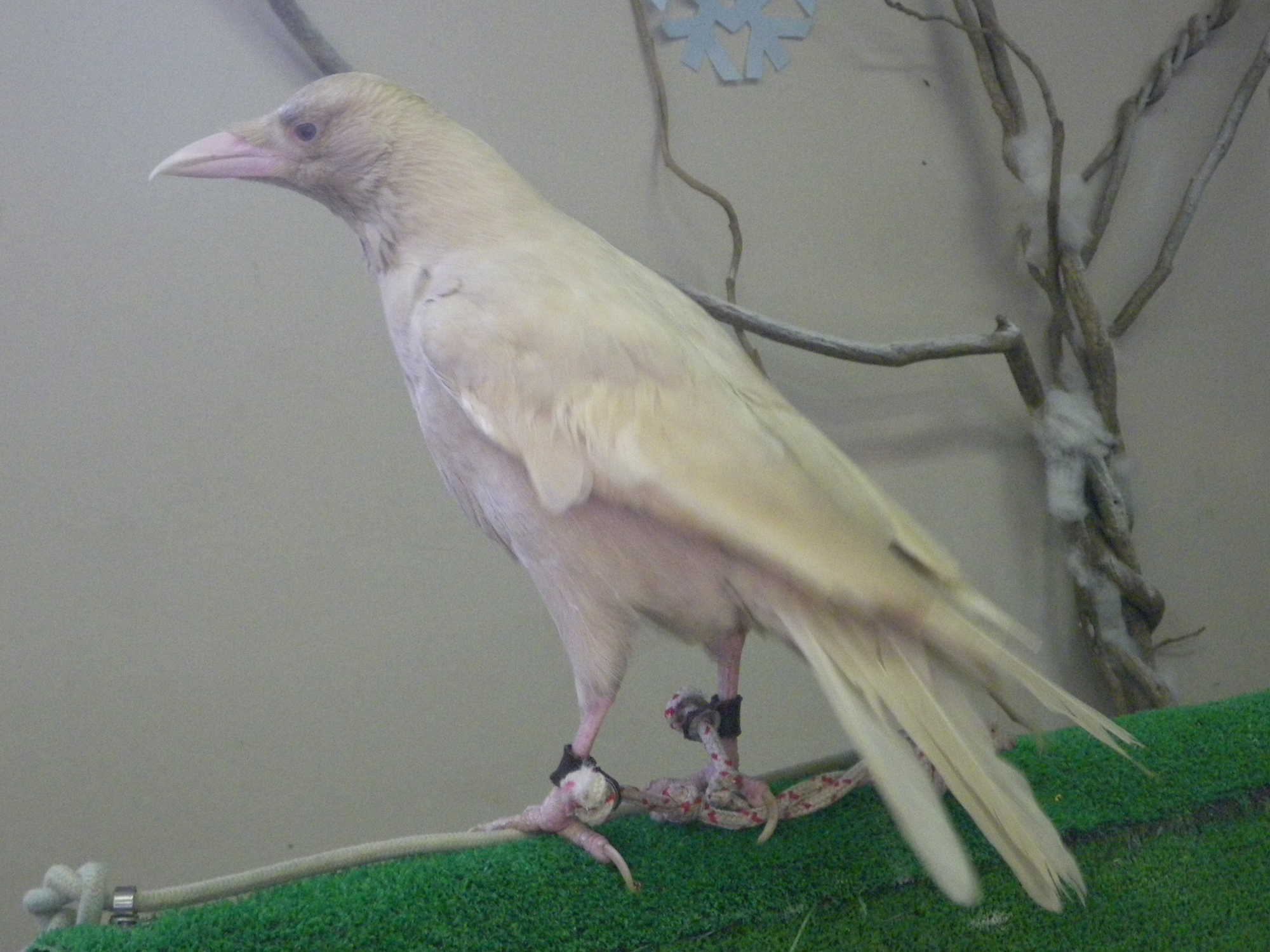 Albino Carrion crow.